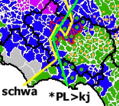 linguistic map of province of Frosinone. Archaic vocalism in purple. Sabine metaphony (or Ciociaresco) in blue. Samnite metaphony (or Neapolitan metaphony) in green. Metaphony of 'a' in orange square. Linguistic transition belt from Sabine metaphony to Neapolitan metaphony red bordered.